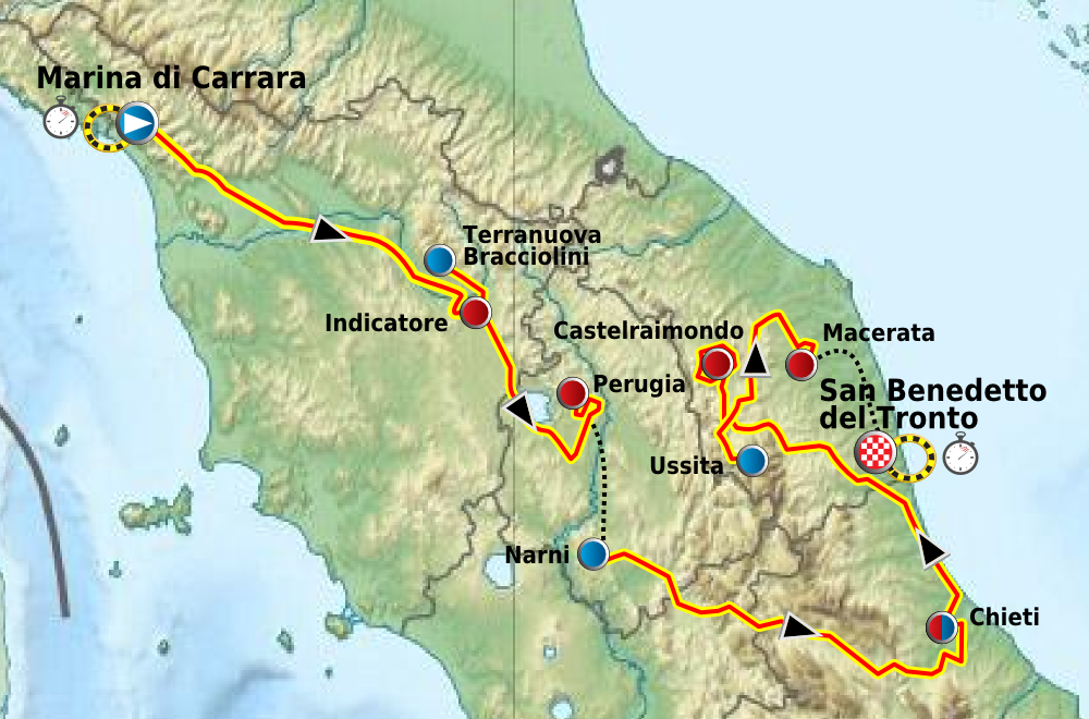 Route of Tirreno Adriatico 2011